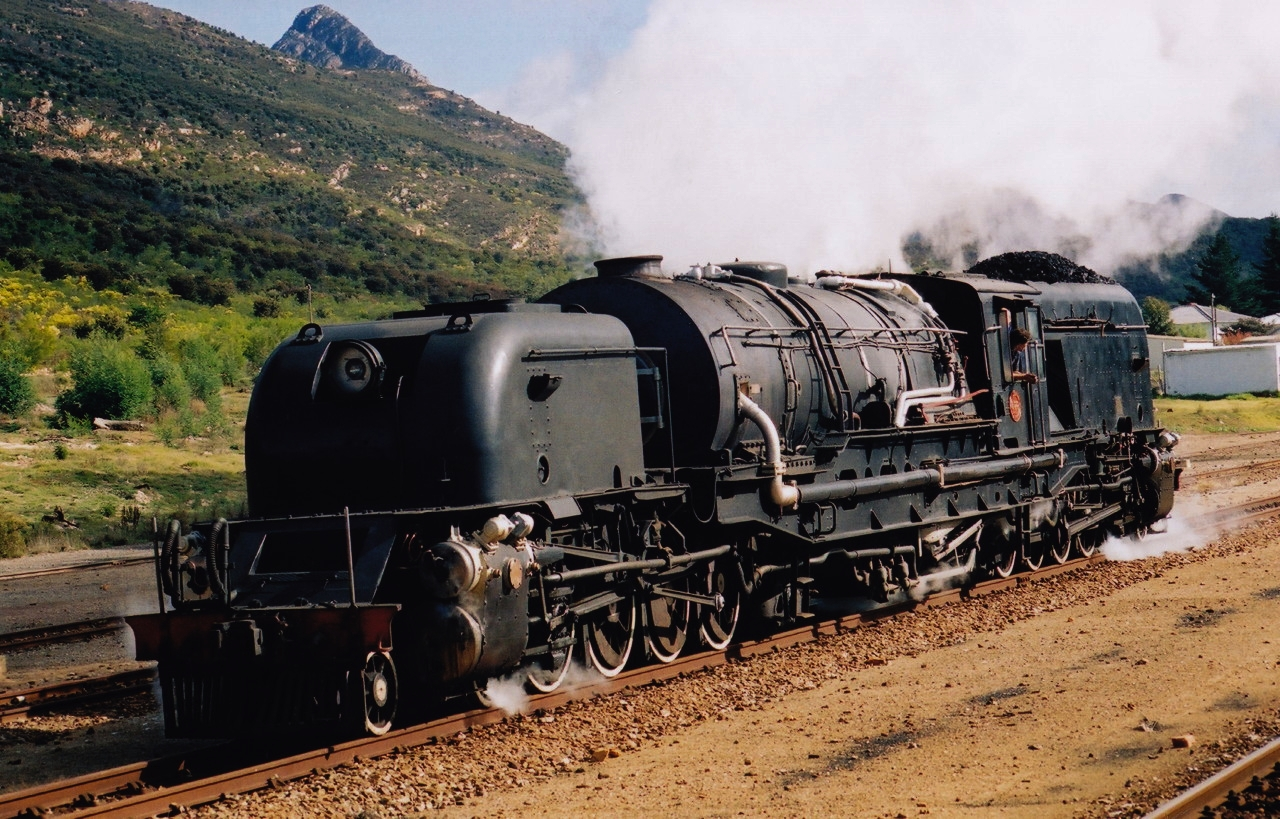 South African Railways Class GMA 4-8-2+2-8-4 Garratt locomotive on the George - Outshoorn line. The Outeniqua Mountains are in the background.